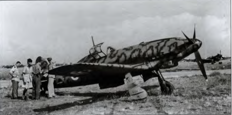 The Macchi C.205V Series III M.M. 92114 by Maggiore Ruspoli, the protagonist of the launch of leaflets on Rome on 6 October 1943